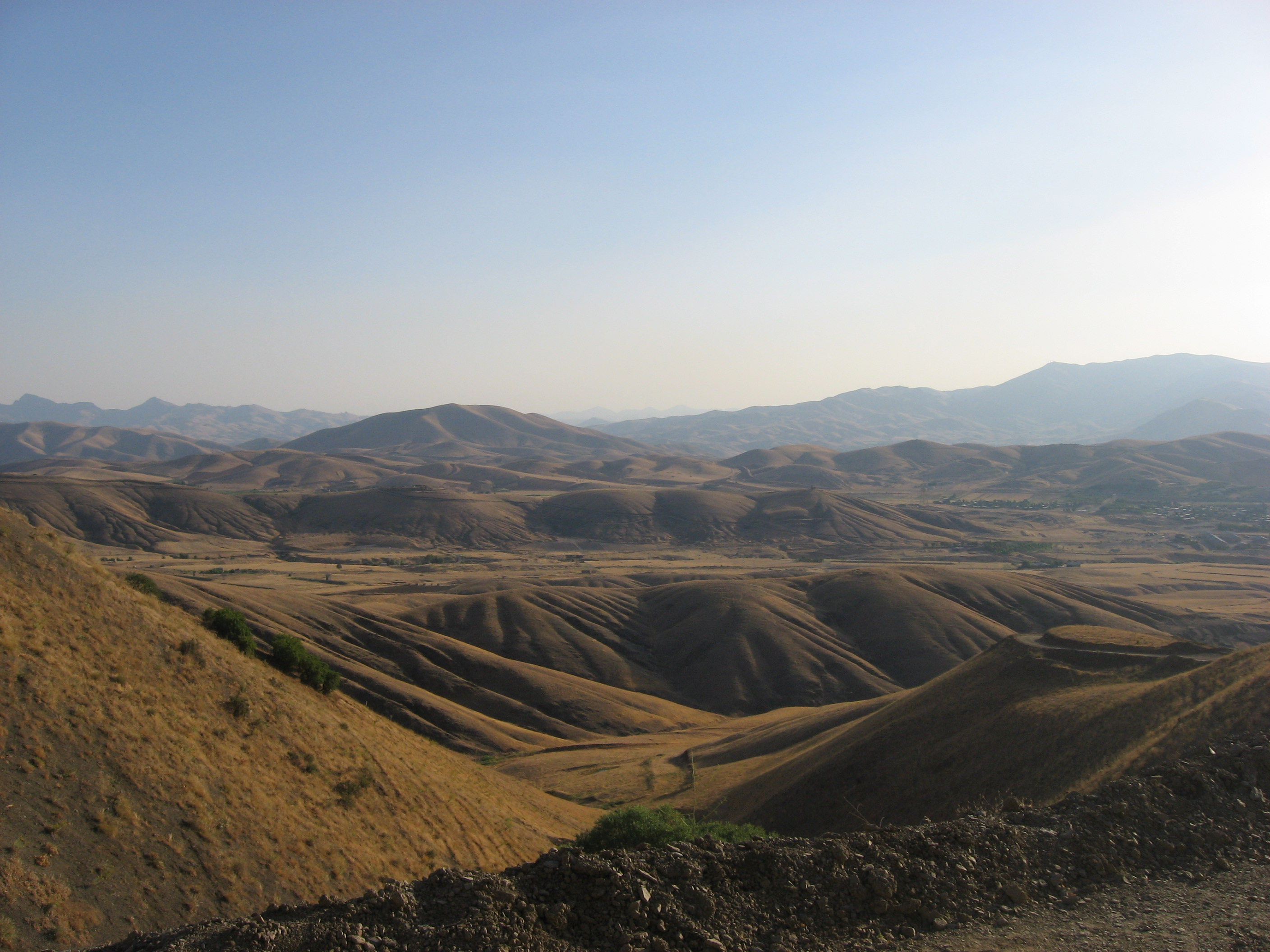 Mounations around the kurdish city Sena (Sanandaj in persian).